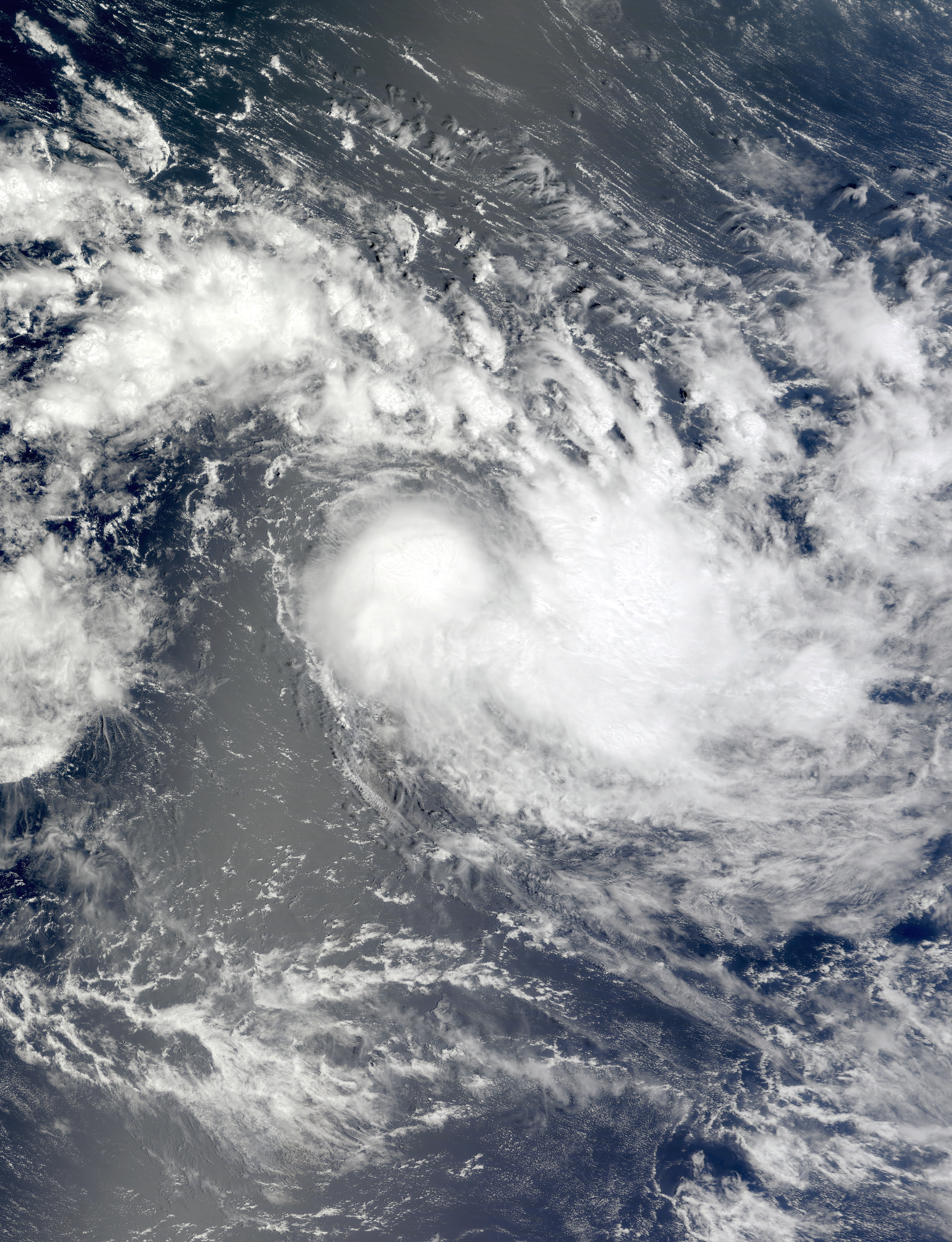 Moderate Tropical Storm Bernard as seen from Terra Satellite on 2008-11-19